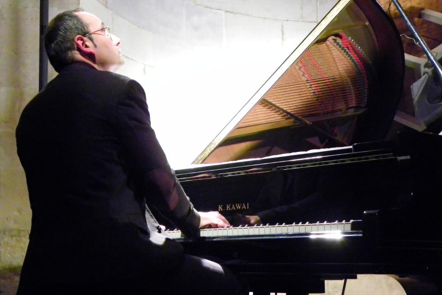 concert